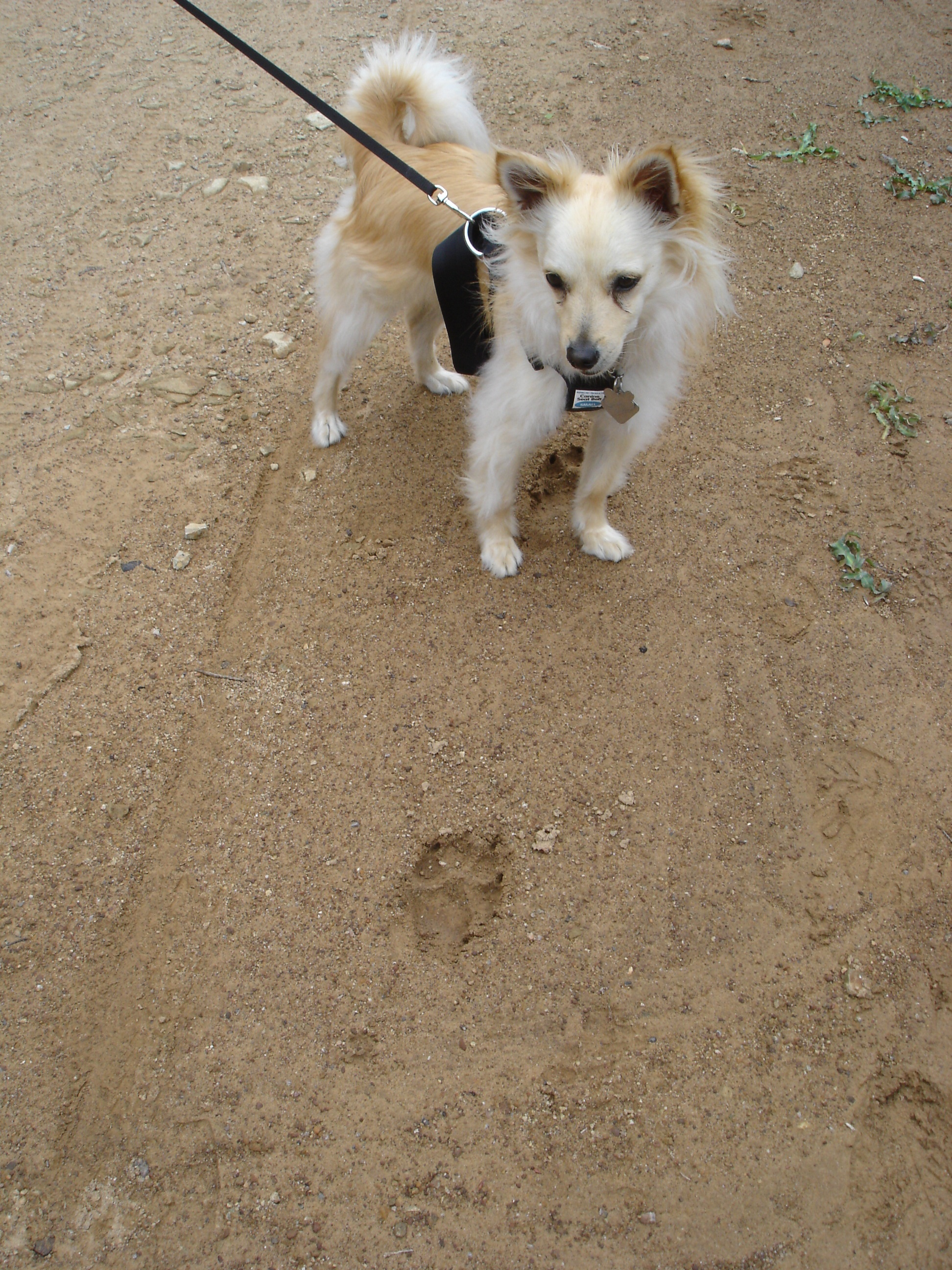 Cougar track in El Sereno Open Space Preserve